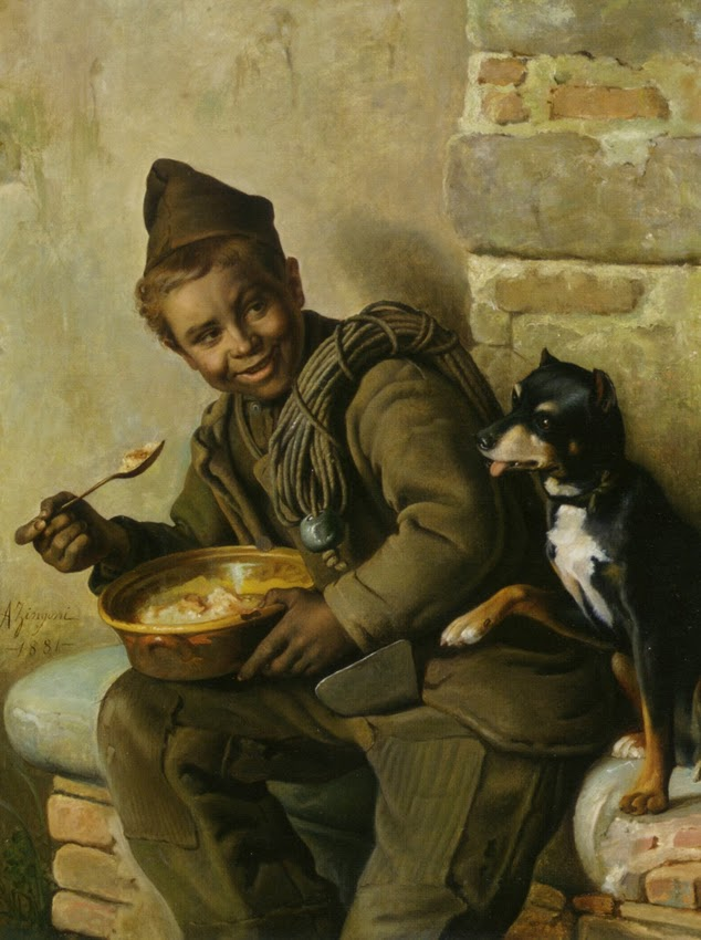 Meal Time for the Chimney Sweep